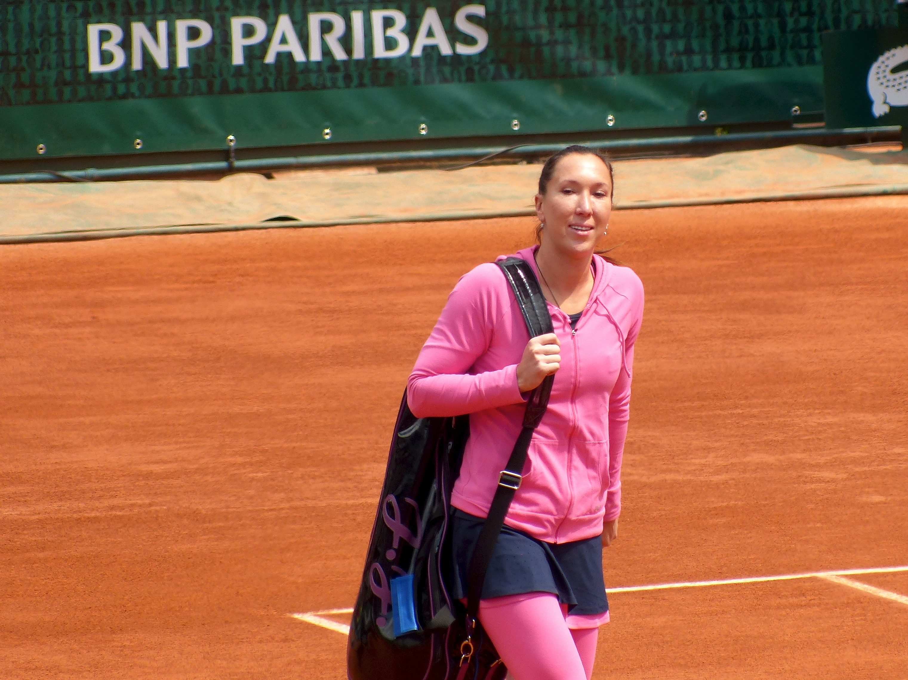 Jankovic walking out to hit.